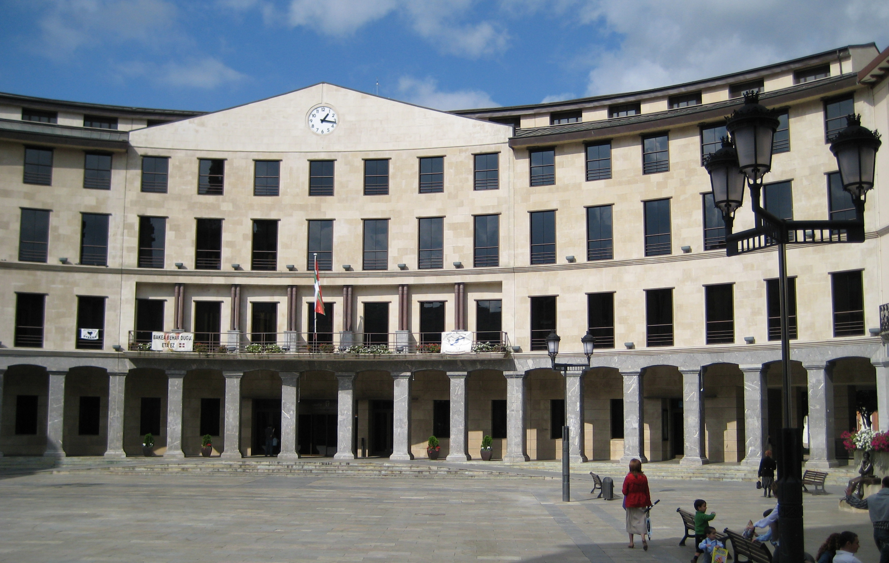 New town hall premises of Laudio / Llodio, Álava